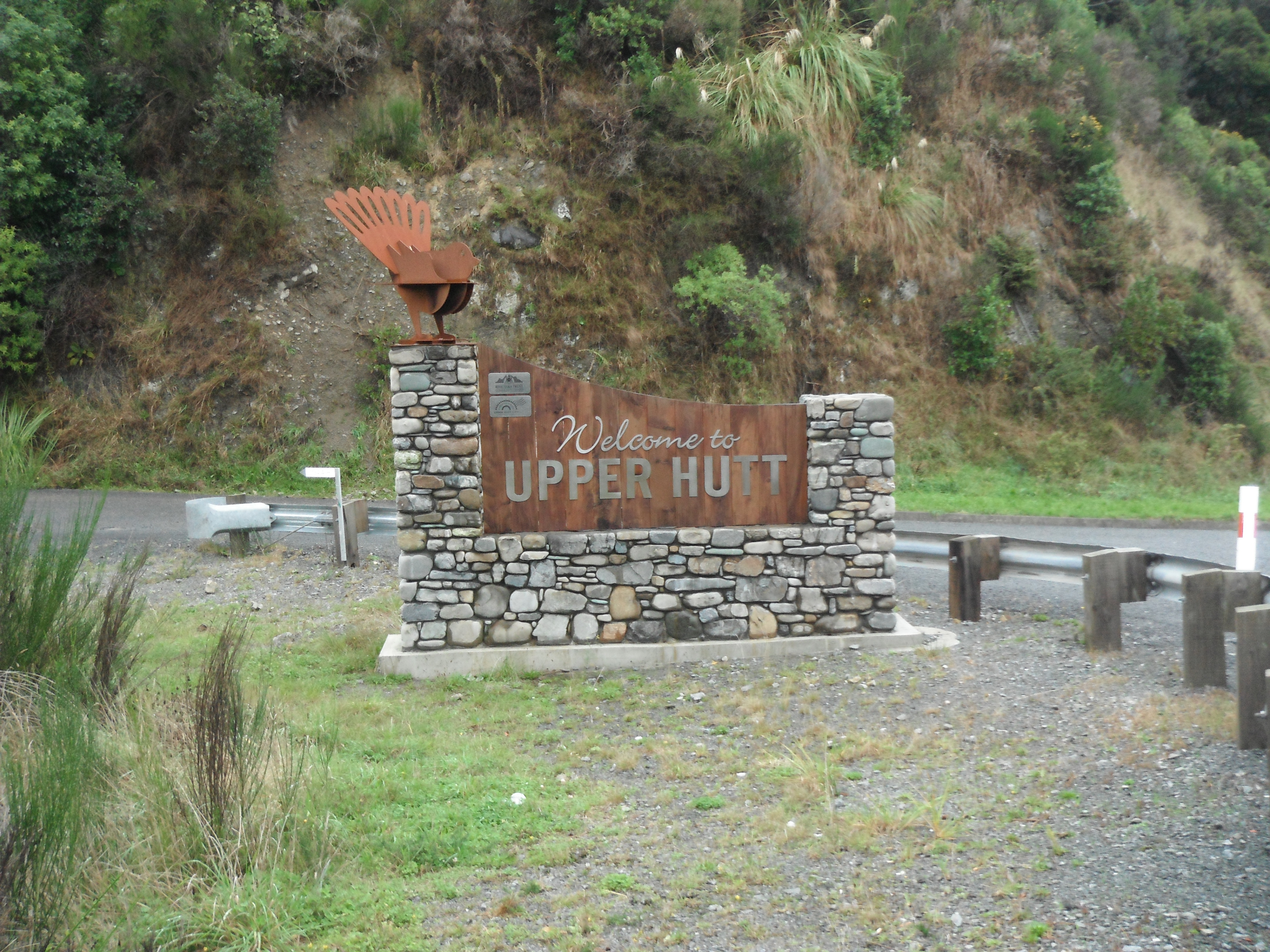 The "Welcome to Upper Hutt" sign with a wrought iron New Zealand fantail, at Te Marua on the northern approach to the city.